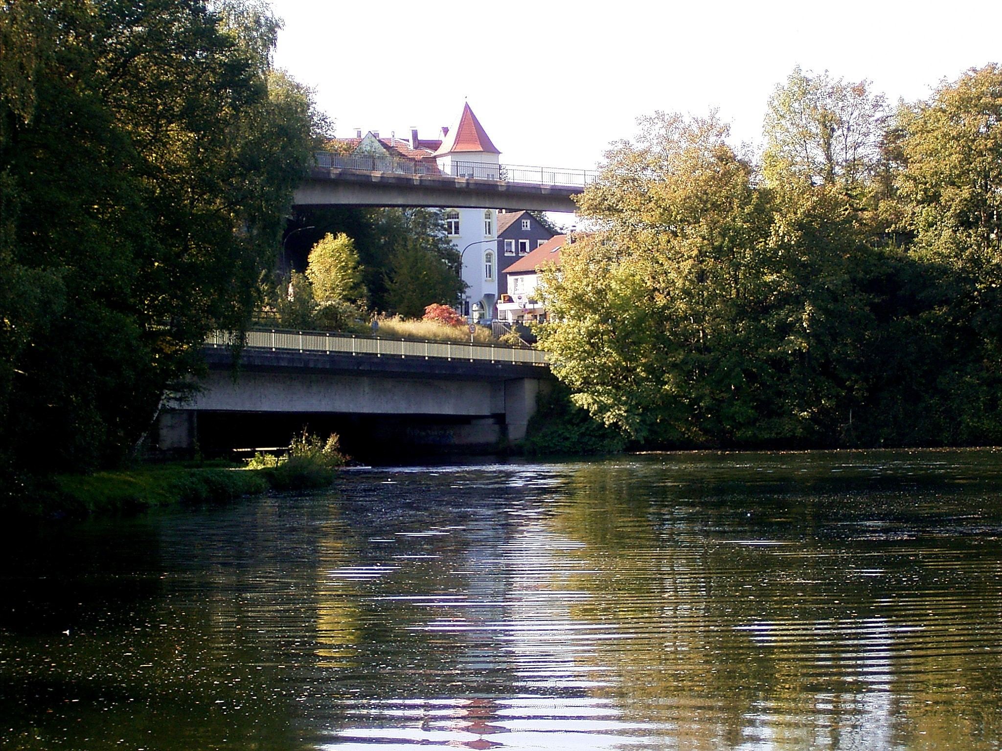 Description: Wuppertal-Beyenburg